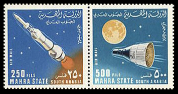 Airmail postage stamps of Mahra State (South Yemen), Gemini space program, 1966